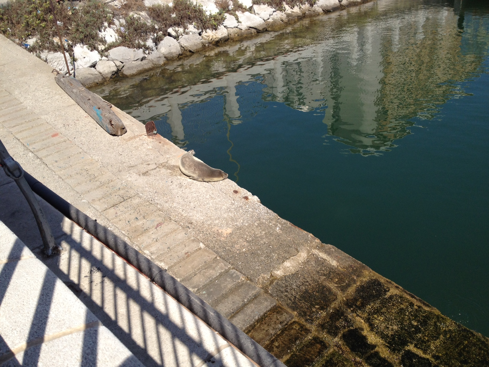 Spotted today at Coaling Island, Gibraltar. Sunbathing on a slipway. Perhaps a first for Gibraltar